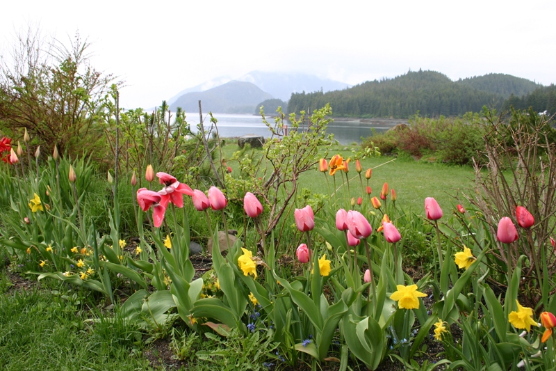 Walkway to "The Shrine of St. Therese", a Catholic retreat in Juneau. It had very pretty views.